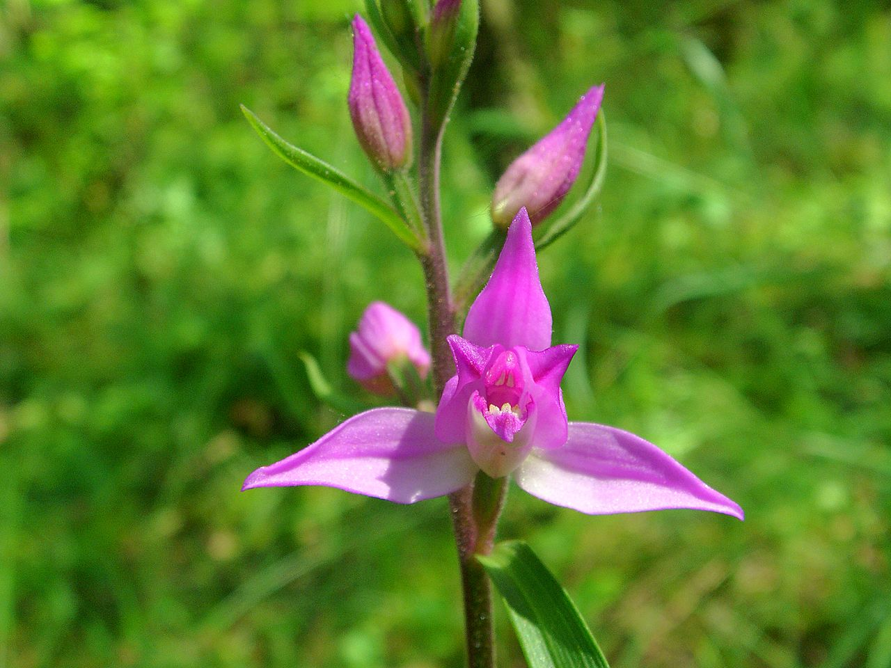 Cephalanthera rubra - flower